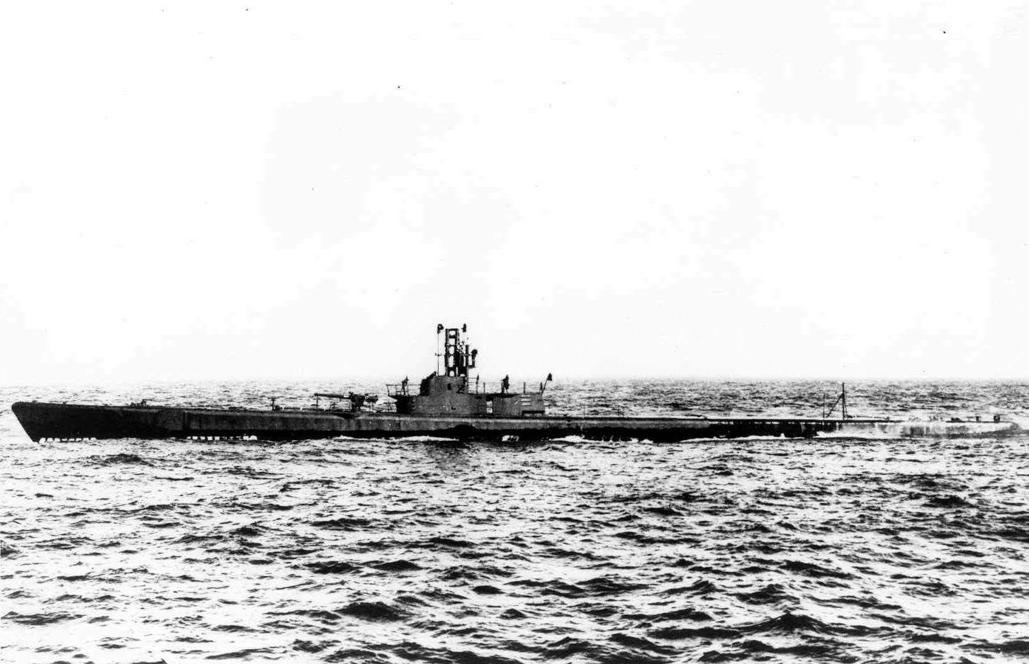 USS Flasher; The Flasher (SS-249) port side view underway, circa 1943-45. US Navy photo courtesy of .